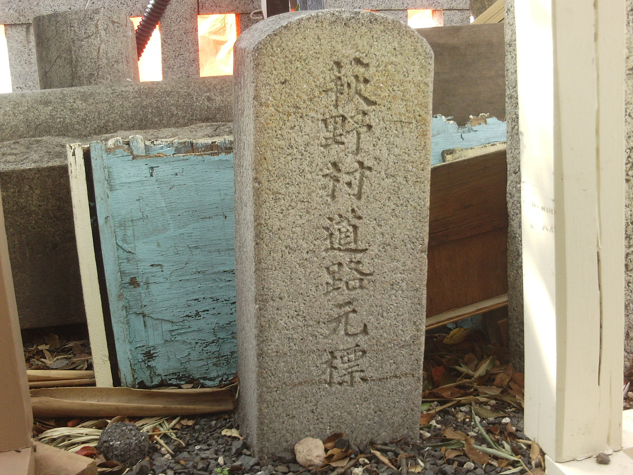 Kilometre zero of Hagino village. (Hagino village, Nishikasugai-gun, Aichi.)